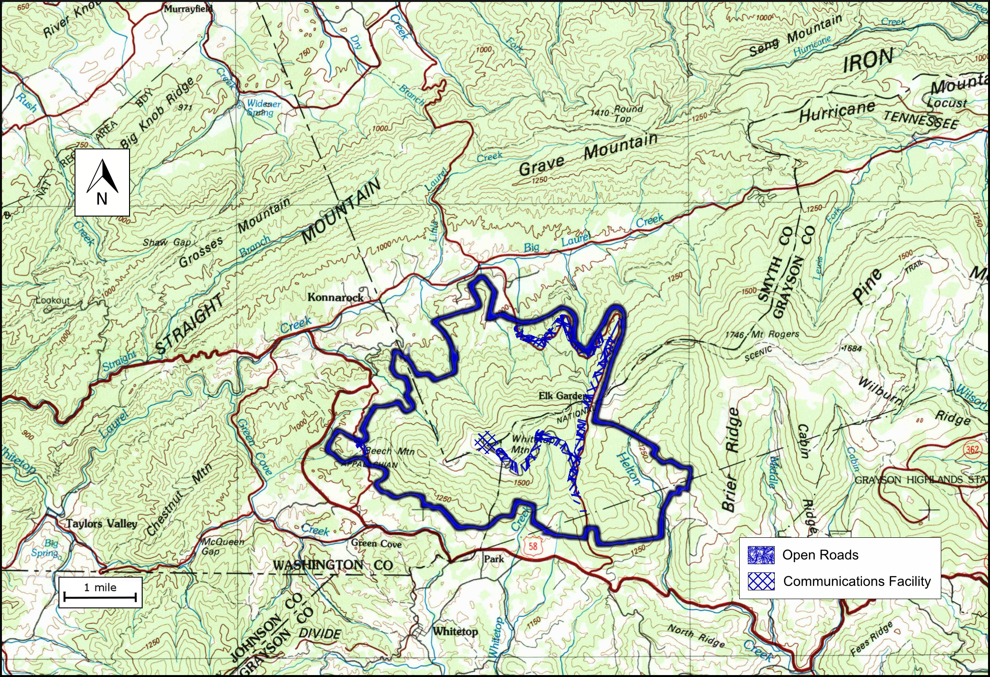 Boundary of the Whitetop Mountain wildland in the Jefferson National Forest as identified by the Wilderness Society